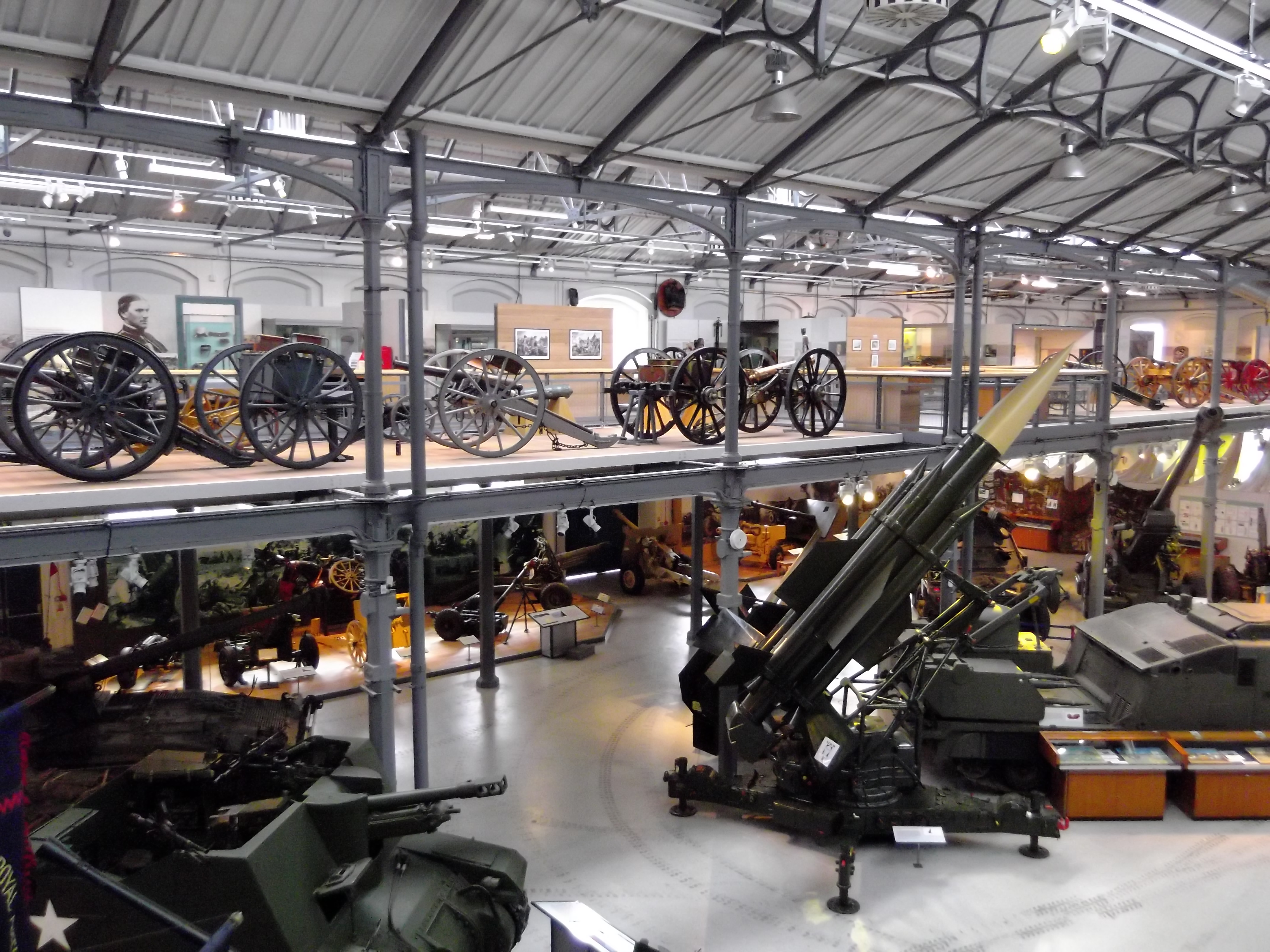 Royal Artillery Museum Woolwich London 277